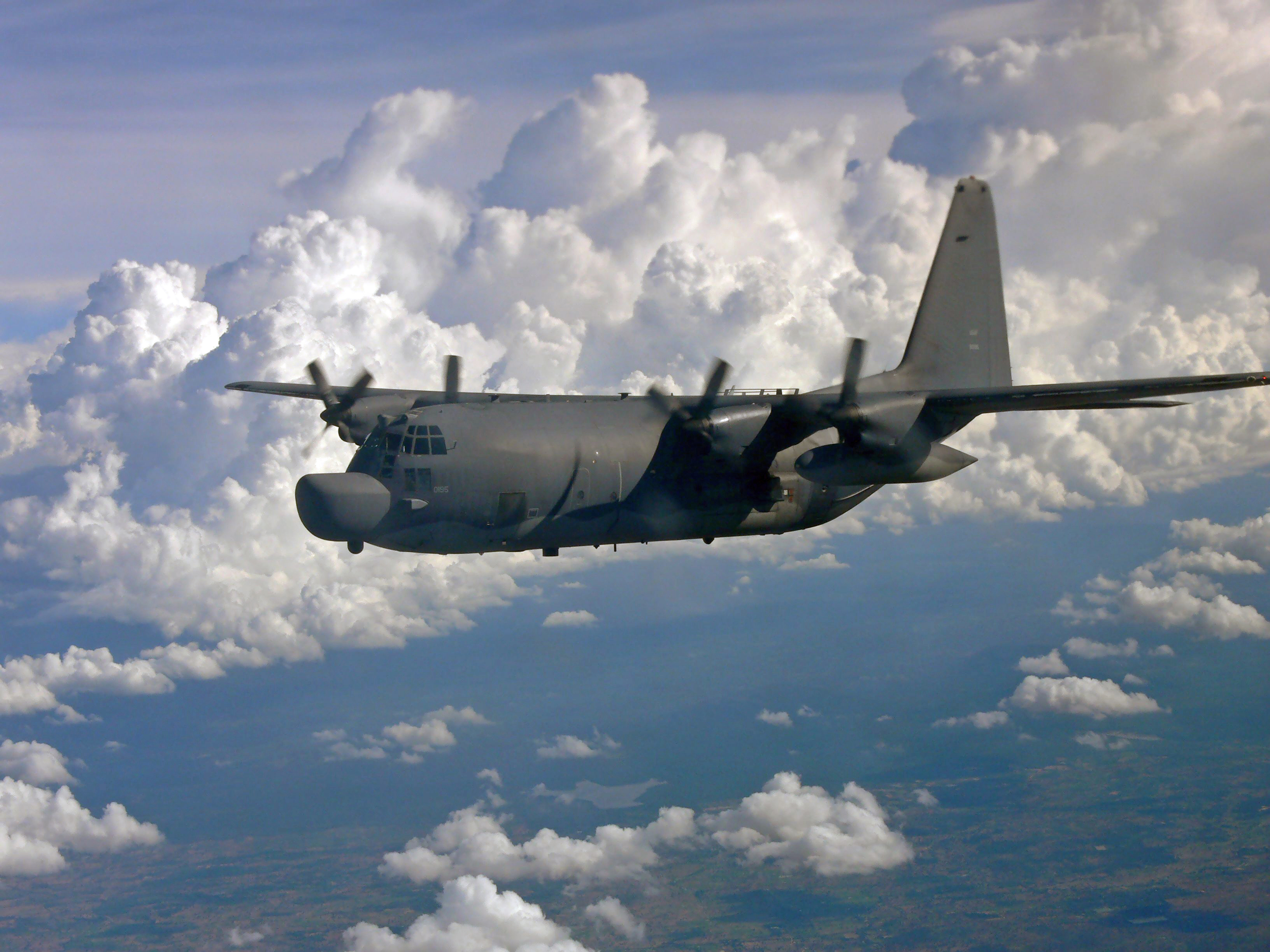 A MC-130H Combat Talon II from the 1st Special Operations Squadron flies a training mission during an exercise in Bangladesh June 9, 2006. The 353rd Special Operations Group routinely trains with nations in the Pacific enhance military training and capabilities between the nations. The MC-130H Combat Talon II provides infiltration, exfiltration and resupply of special operations forces and equipment in hostile or denied territory. (Courtesy photo)